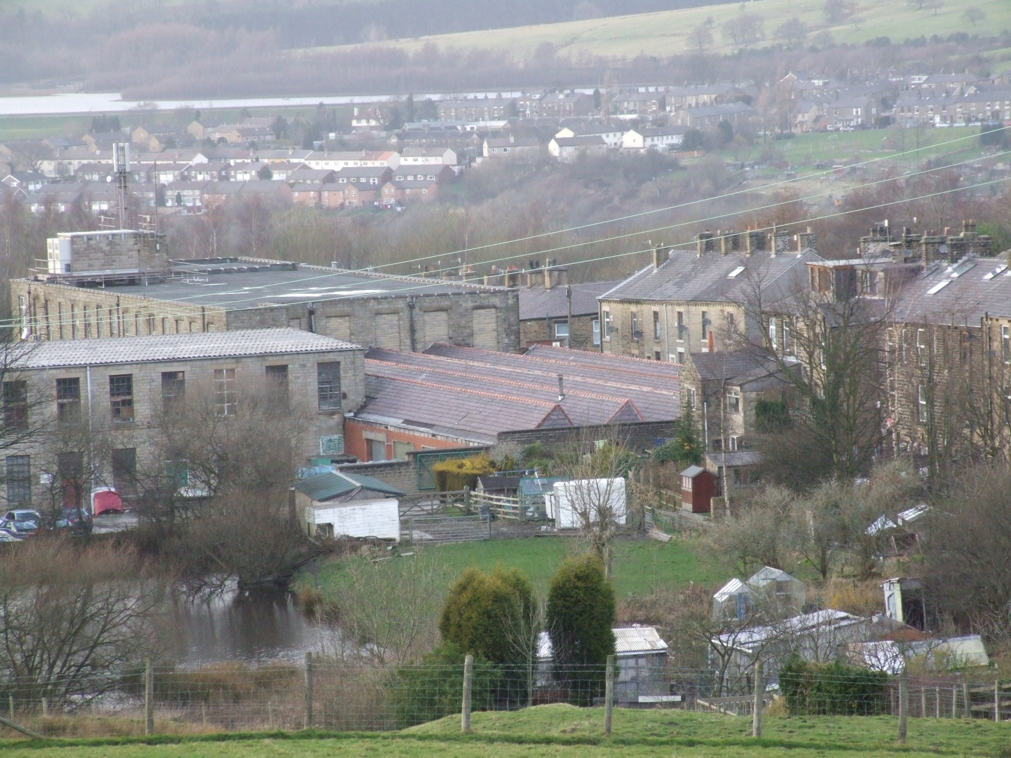 Hadfield Mills, Padfield SK1 1EB. Weaving sheds. Padfield Conservation area map